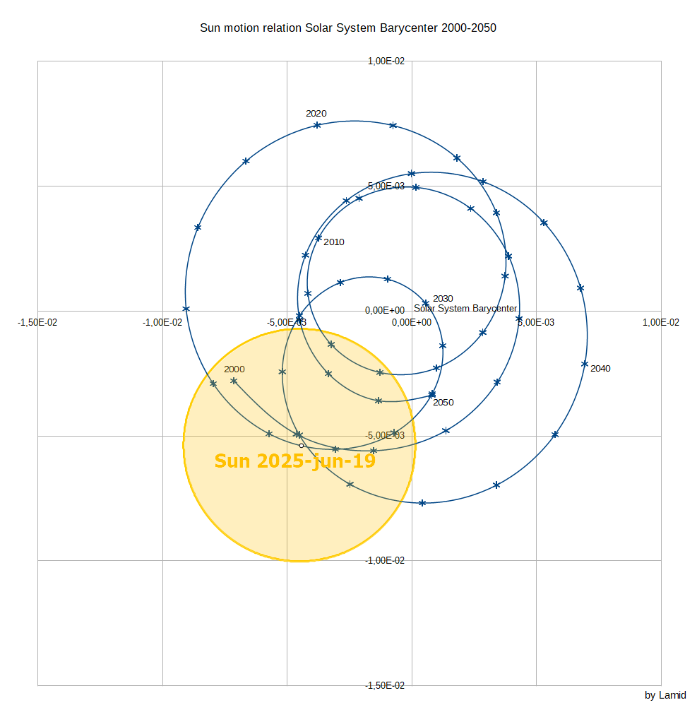 Sun motion relation Solar System Barycenter 2000-2050, position 2025-06-19